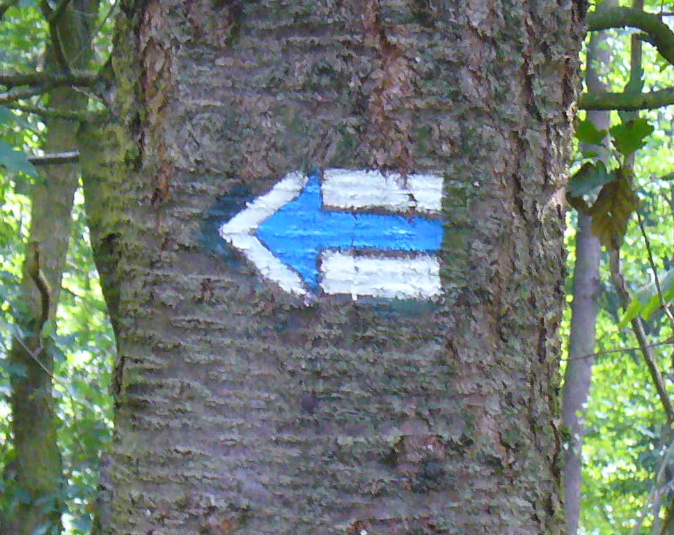 Blue trail blazing near Skryje, Czech Republic